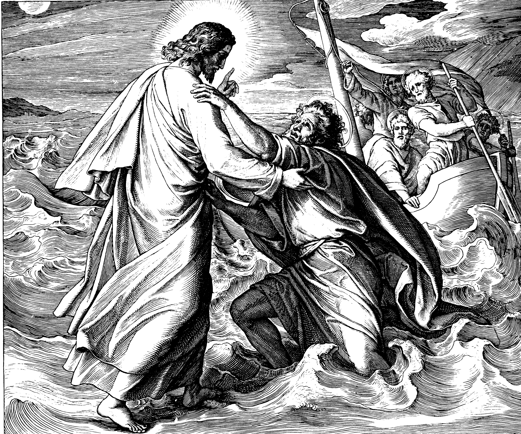 Woodcut for "Die Bibel in Bildern", 1860.